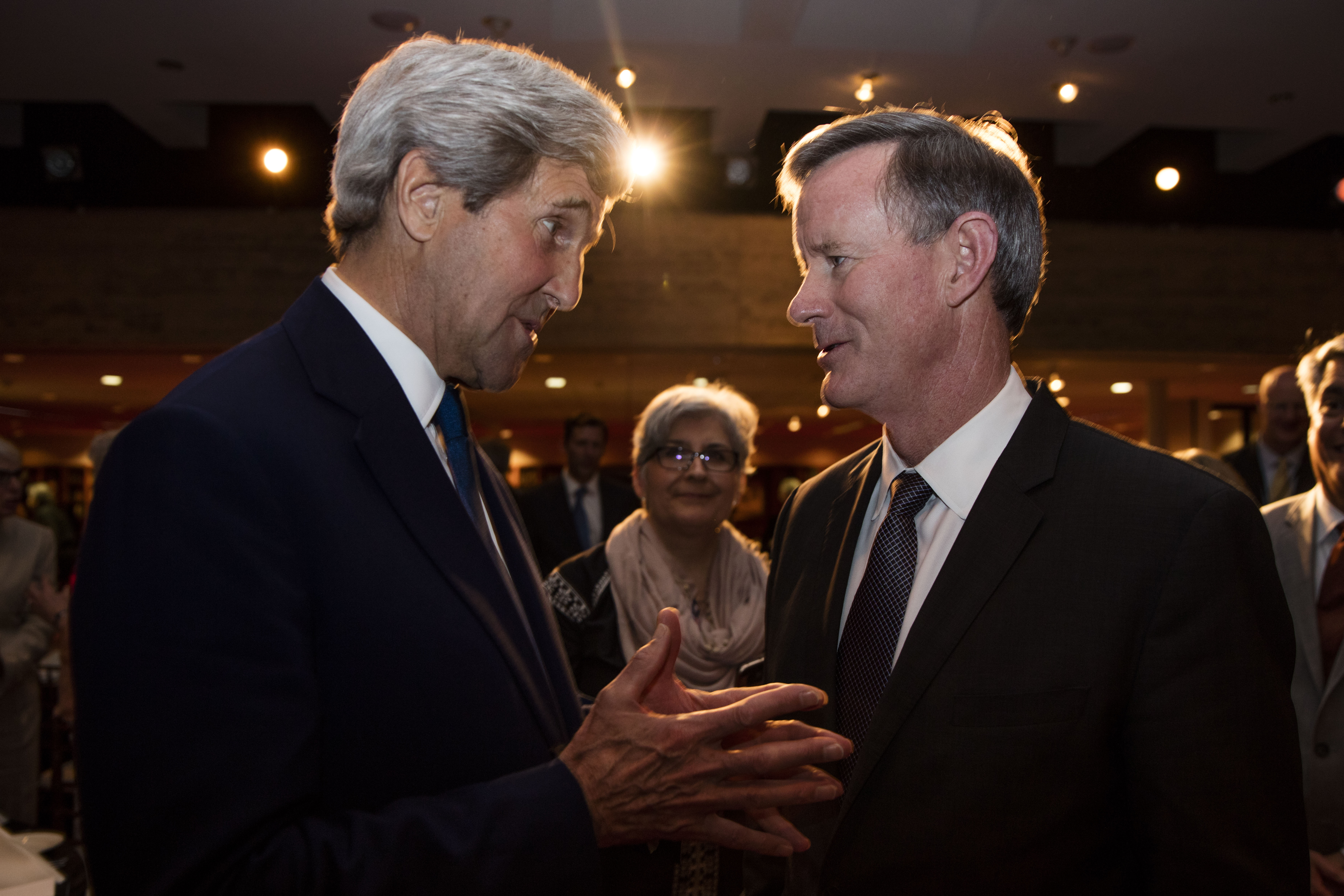 U.S. Secretary of State John Kerry, a Vietnam War veteran, speaks with William McRaven, University of Texas System Chancellor and Former Commander of U.S. Special Operations Command at a reception following his keynote address. Secretary Kerry delivered the keynote address at the LBJ Presidential Library's Vietnam War Summit on Wednesday, April 27, 2016. Kerry, a former U.S. senator and co-founder of Vietnam Veterans of America, gained national attention after speaking out publicly against the Vietnam War returning from two tours of duty. Kerry's speech was part of the LBJ Library's three-day Vietnam War Summit.